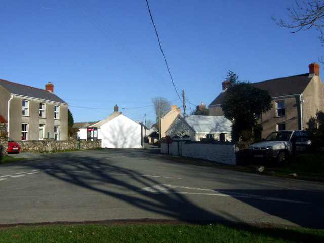 Treamlod/Ambleston village centre Tiny agricultural village (popn. 150) south of the Preselis. From the community action plan 2005: "Despite Flemish settlements typical of Pembrokeshire roundabout Ambleston Parish, and despite more recent population changes, the character of Ambleston is decidedly Welsh. It would be wrong to include it in the dubious ‘Little England beyond Wales’ description applied to South Pembrokeshire; mostly by travel brochures. The ill­defined Landsker probably lies to the south of Ambleston although some historians have associated it with Woodstock. Most families rooted in the area are Welsh speaking and many use Welsh by choice." Ambleston has no pub, school or shops, although it used to have several. There is concern about the lack of amenities in the village and efforts are being made to restore community activities.